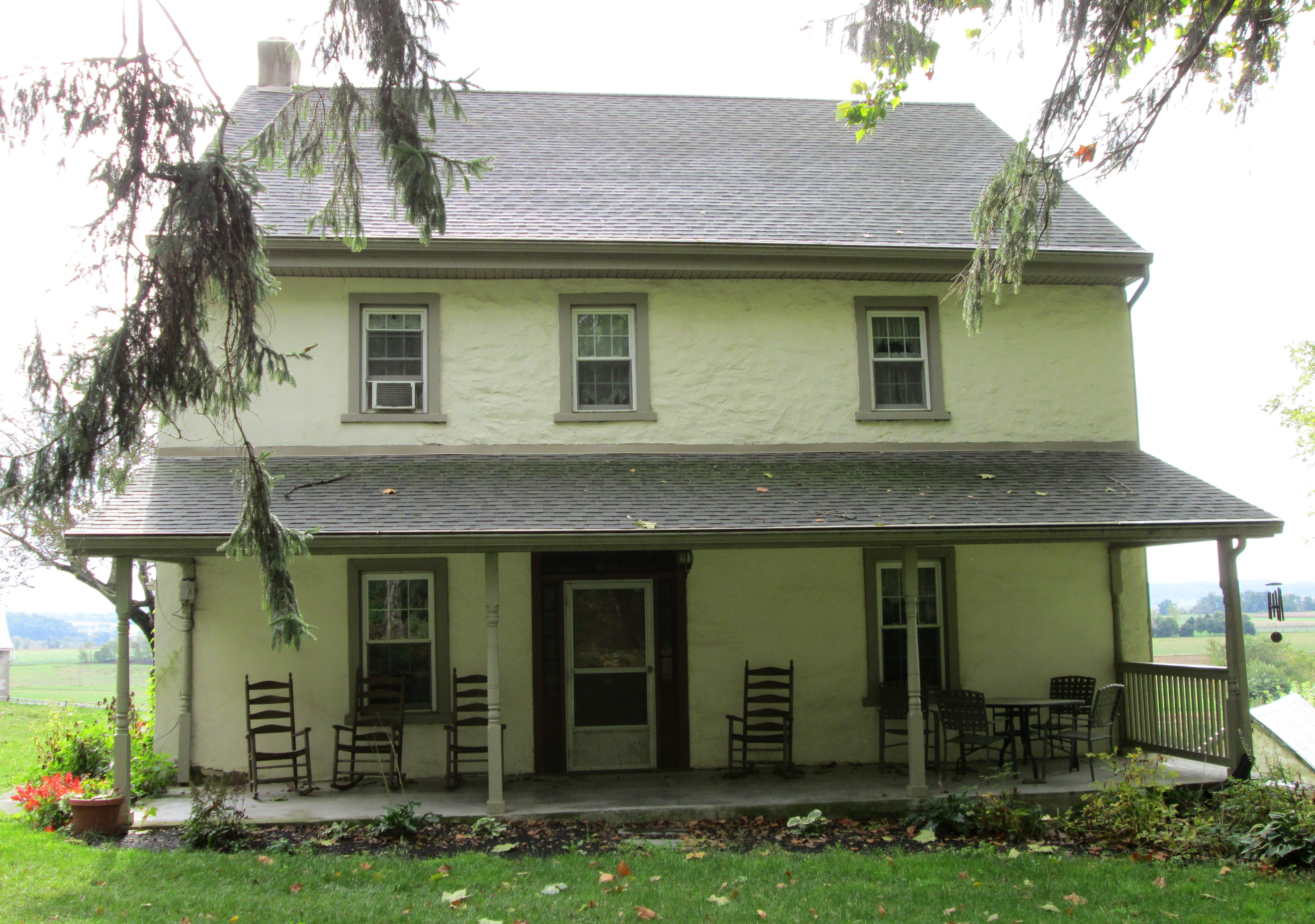 A farmhouse dating fromthe 1760s in Narvon, Pennsylvania